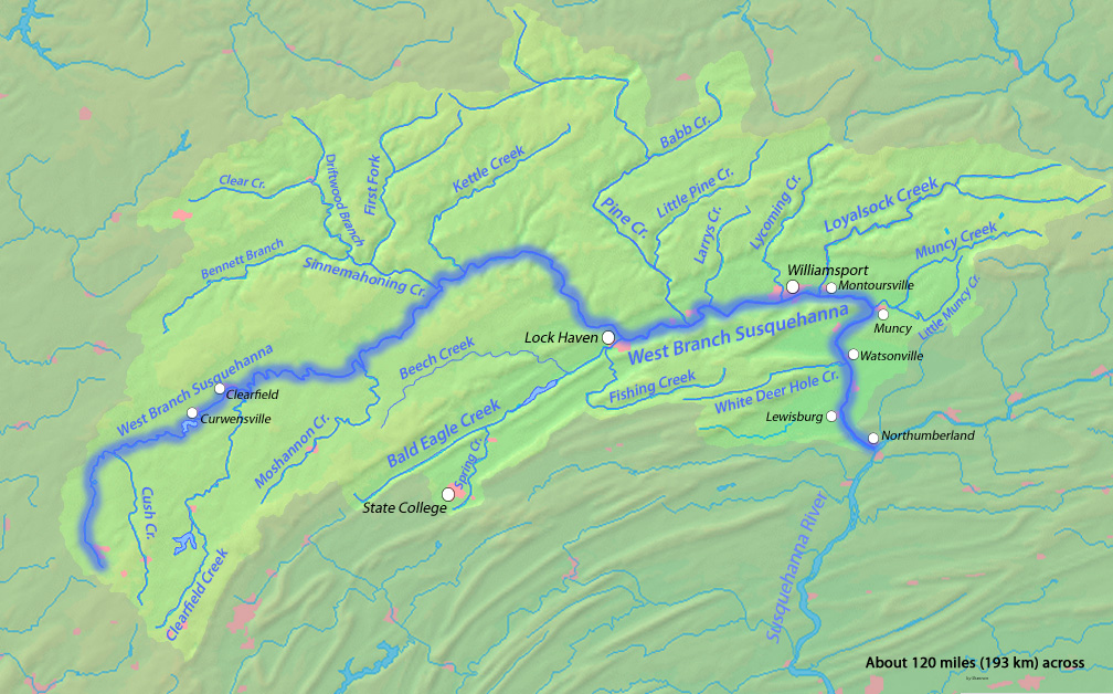 Map of the West Branch Susquehanna River in Pennsylvania. The major tributary of the Susquehanna River in the Eastern United States.